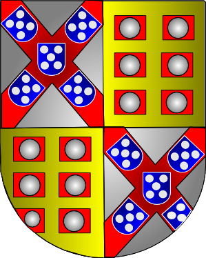 Arms of the Portuguese Lords of Cadaval. Made by JSobral